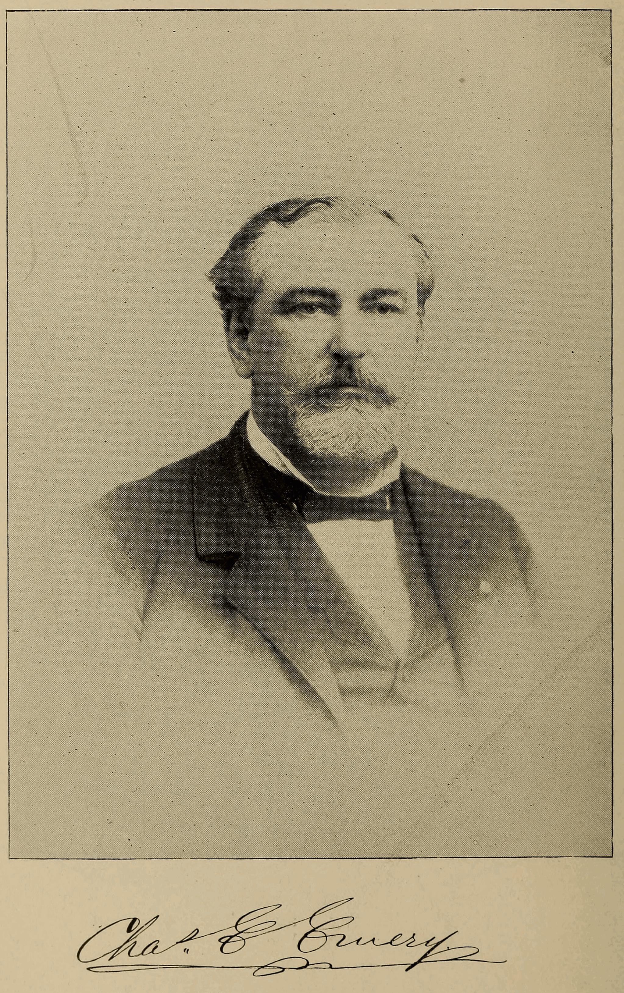 Cassier's Magazine of June 1893 had an article about the engineer Charles Edward Emery, on page 103-106. It was accompanied by this photo on page 82.